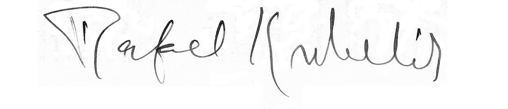 Signature of Rafael Kubelík